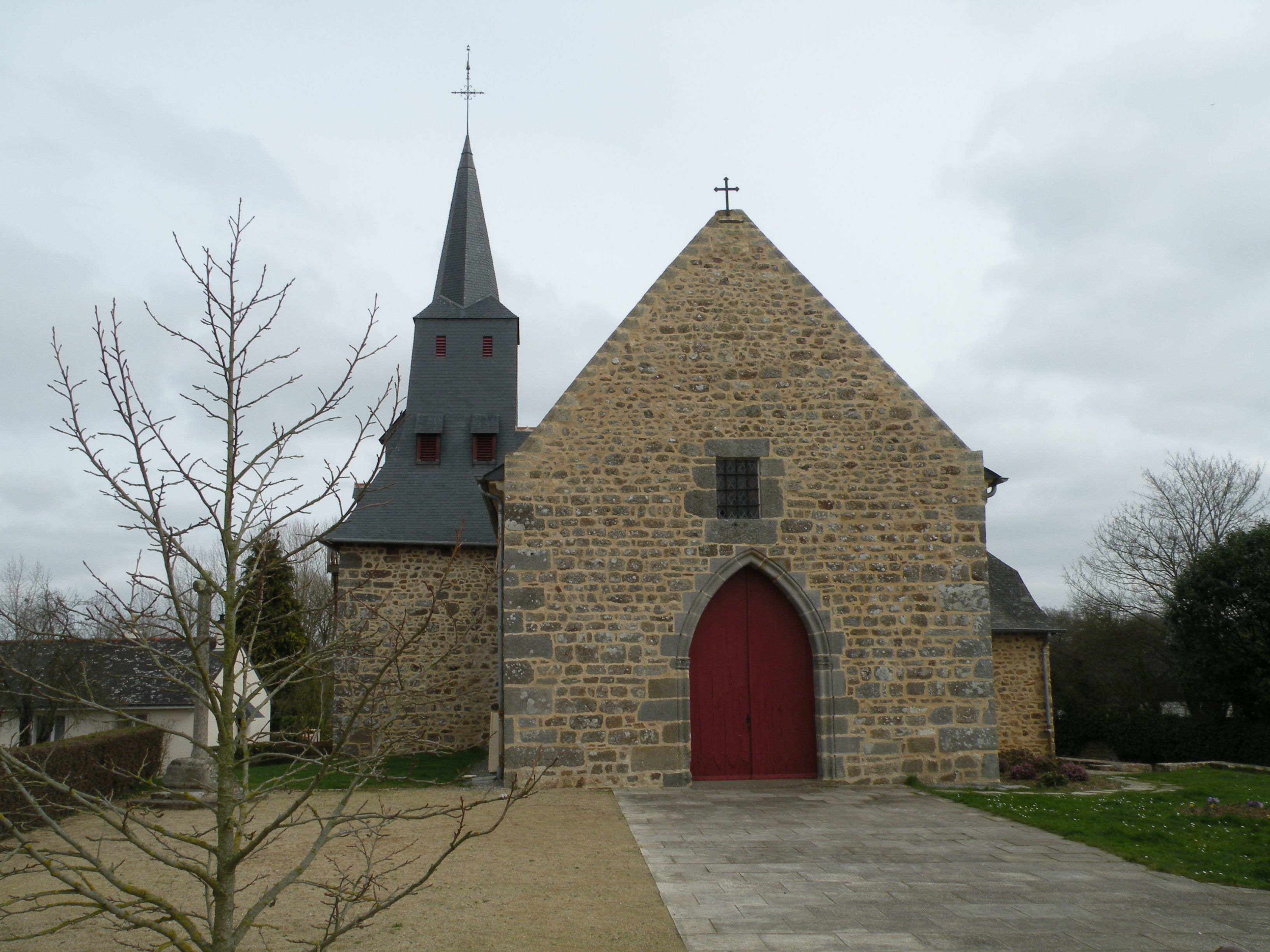 Western façade of Saint-Armel church in Langouet.